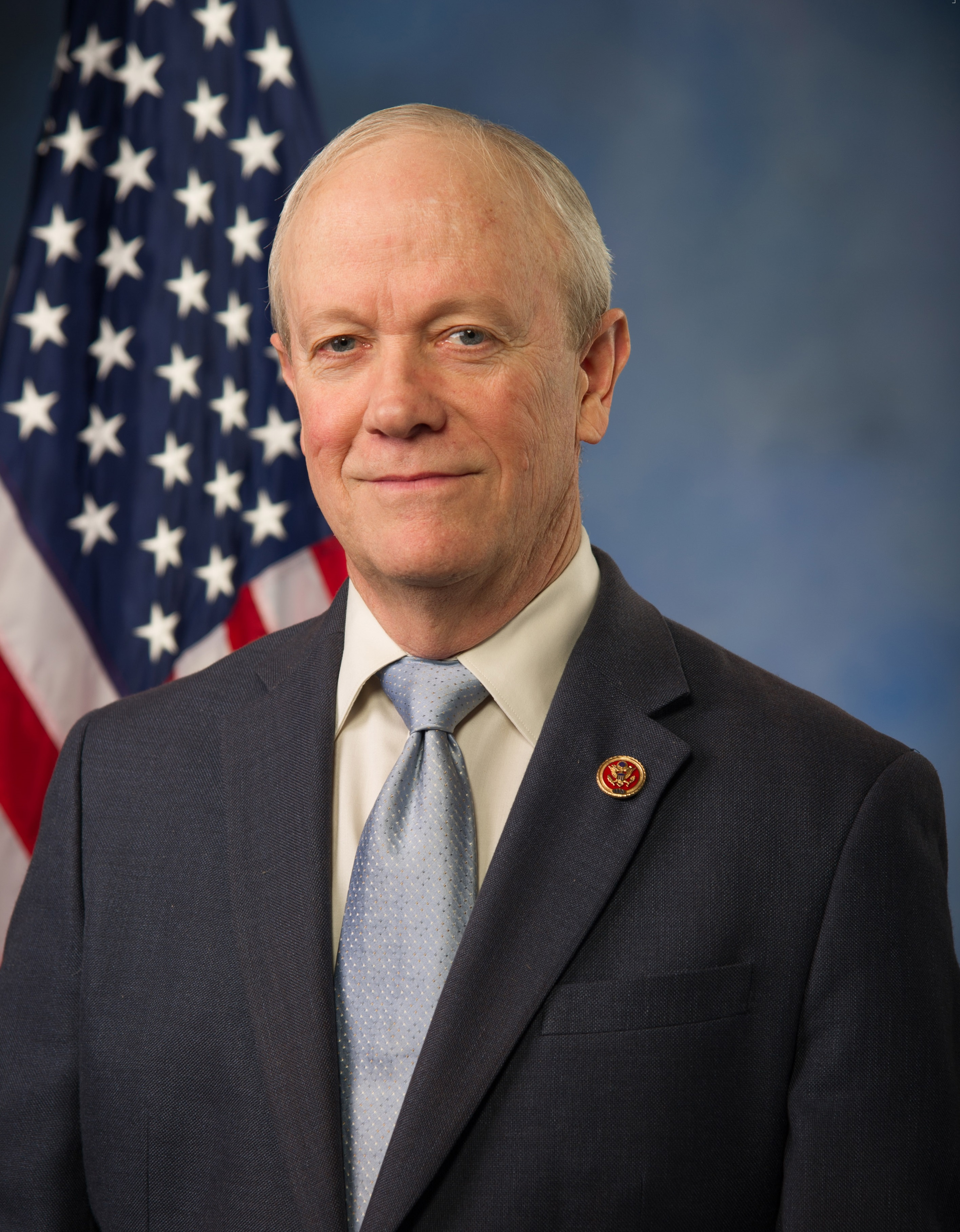 Official photo of Congressman Jerry McNerney (D–Pleasanton)